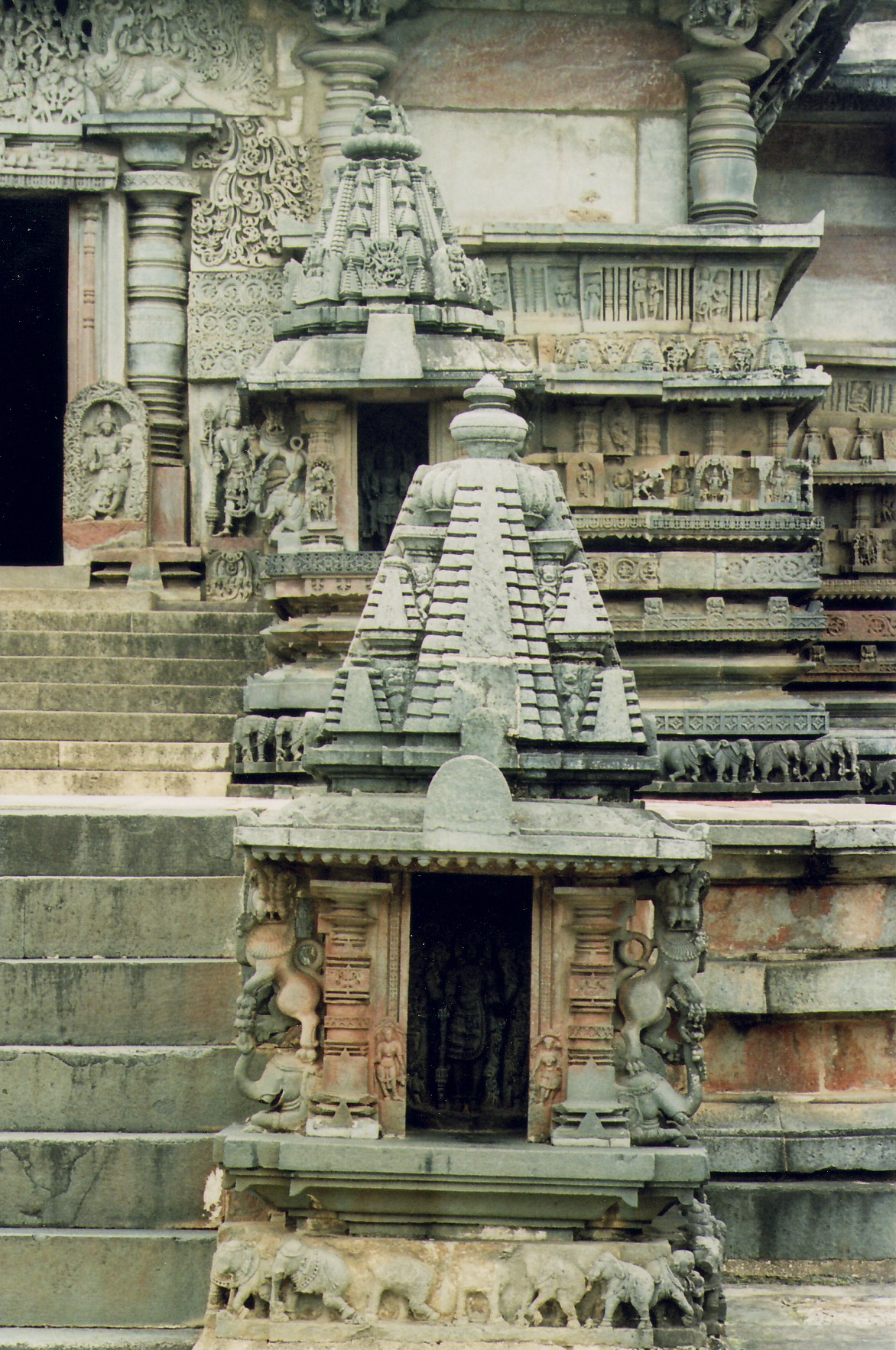 Photograph of Bhumija type of tower (on minor shrines) taken by self (Dinesh Kannambadi) at Chennakeshava temple (also spelt Chennakesava), Belur, Karnataka state, India